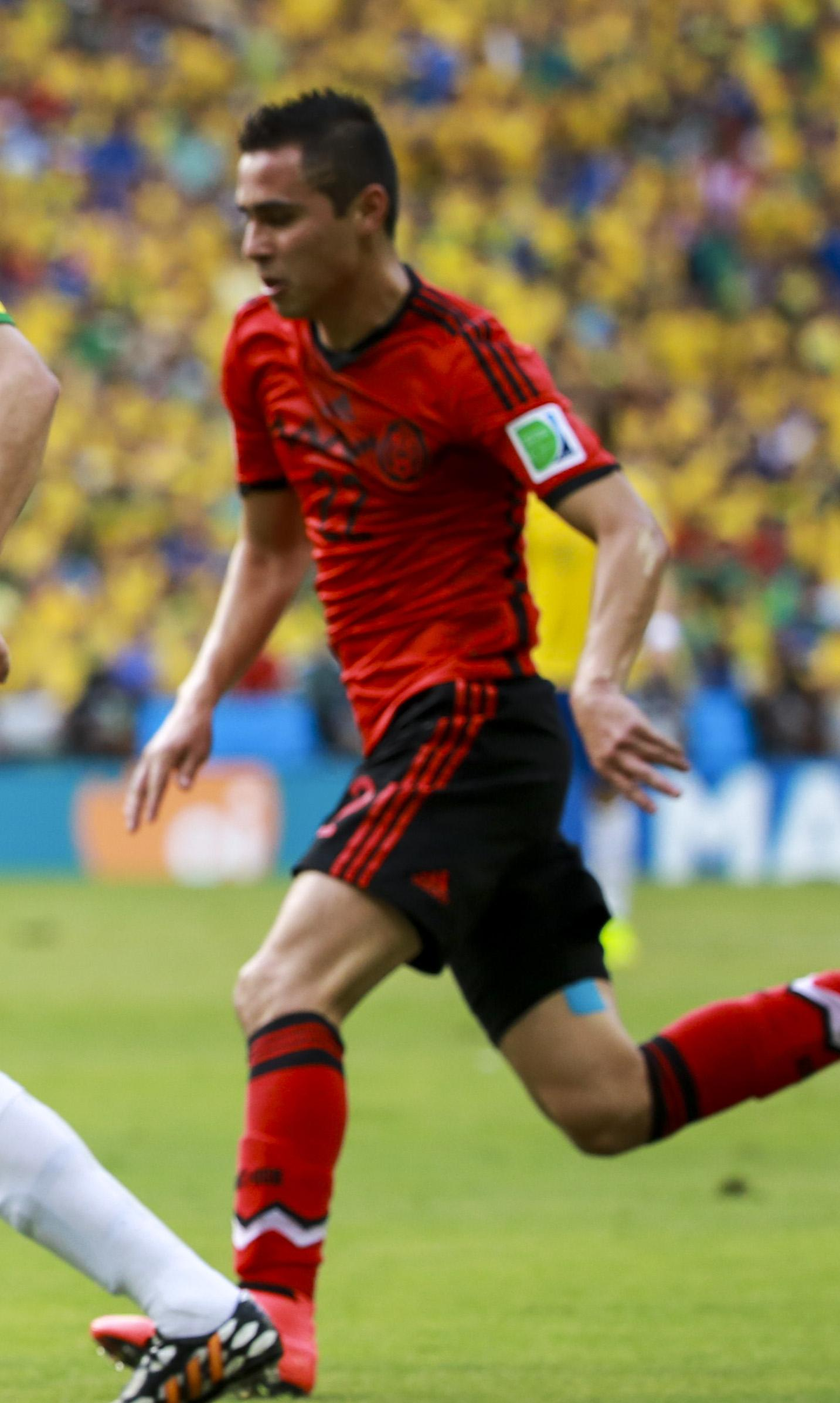 Mexican footballer playing against Brazil at the 2014 FIFA World Cup